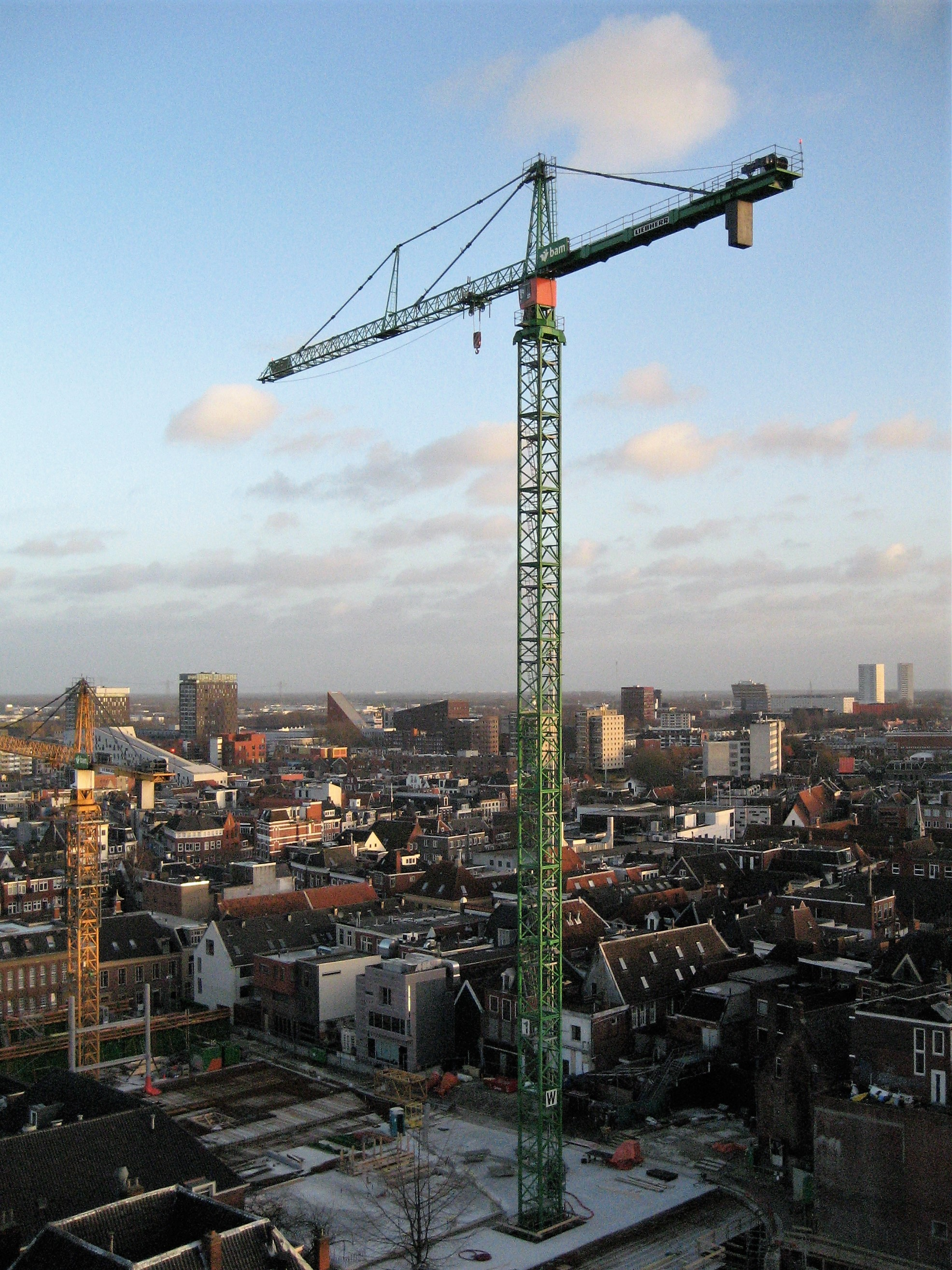 Tower crane (BAM) in Groningen (the Netherlands), Jan. 2015